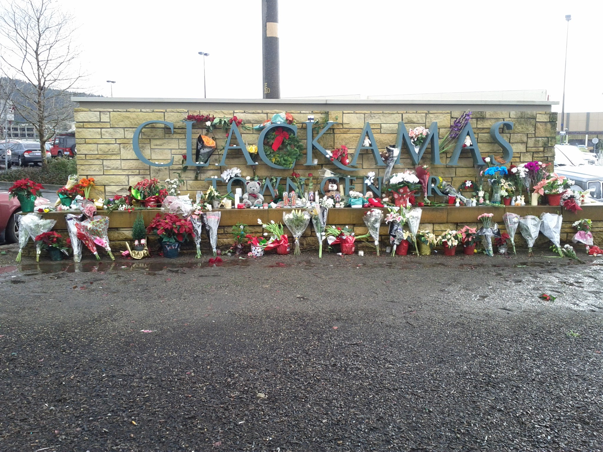 Spontaneous memorial created at entrance to Clackamas Town Center after December 11, 2012 shooting.